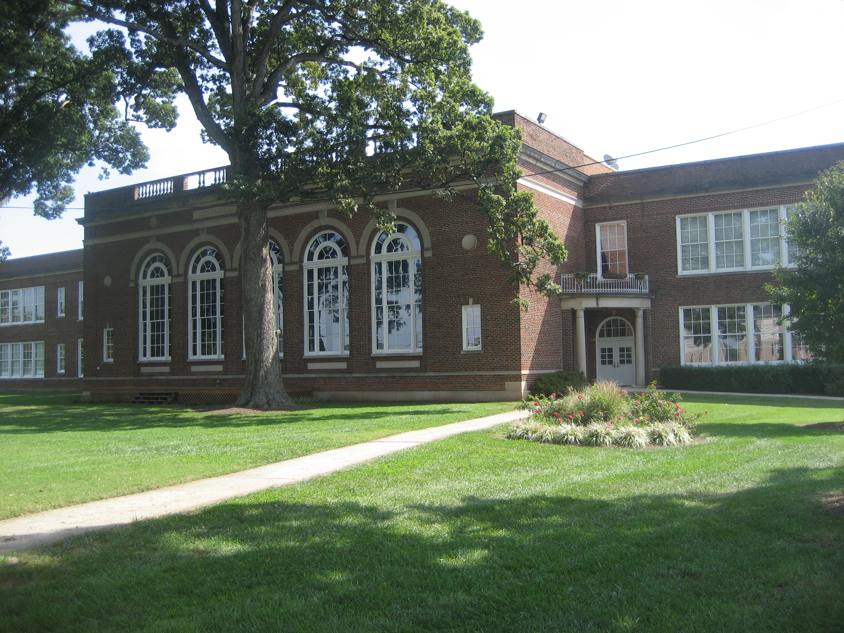 Former Charles D. McIver School in Greensboro, North Carolina. Now used as the Grace Commmunioty Church.